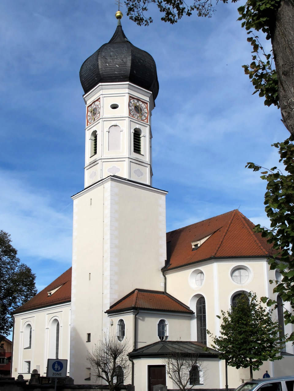 village Iffeldorf, church St. Vitus